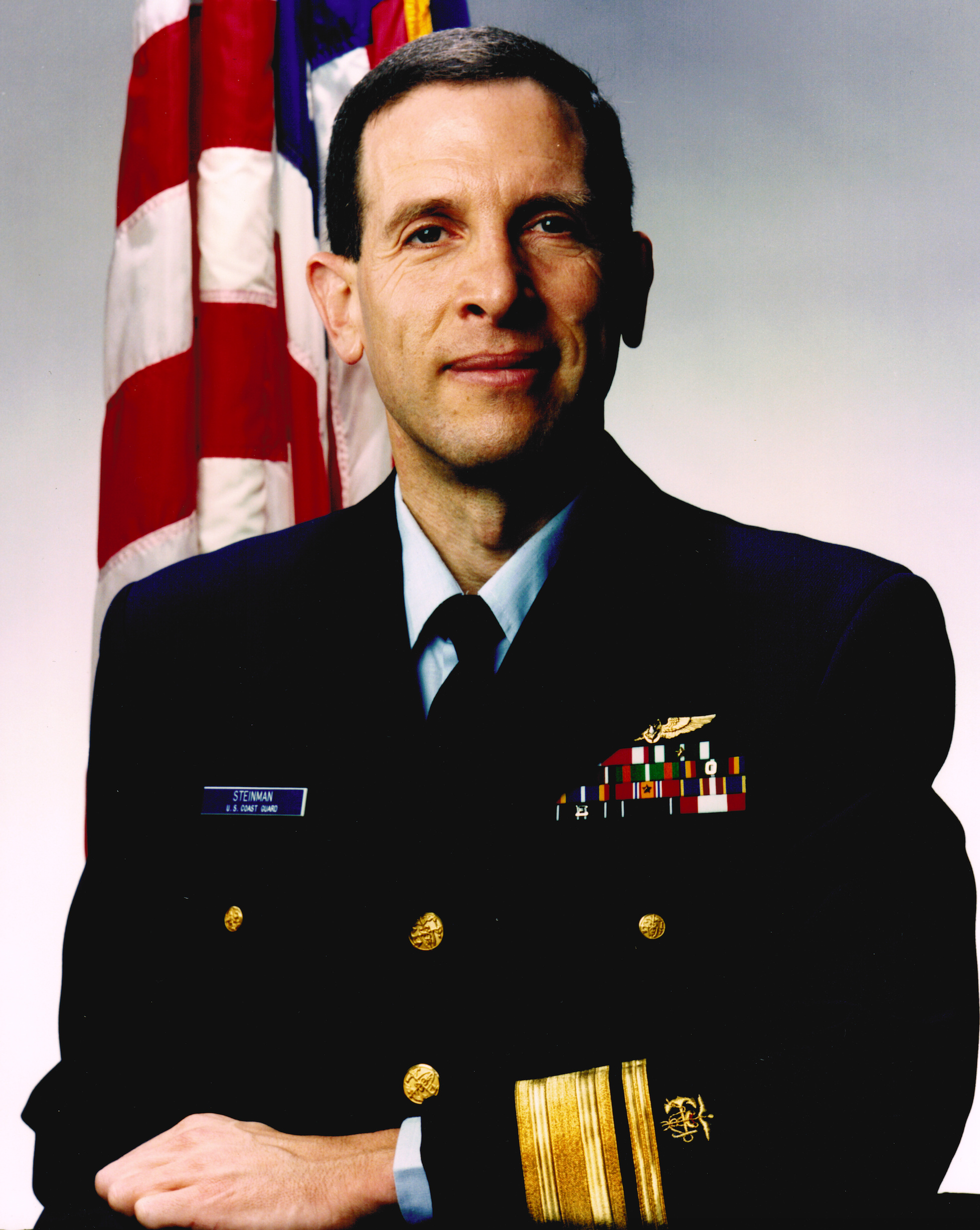 Photo of retired USPHS/USCG Rear Admiral Alan M. Steinman